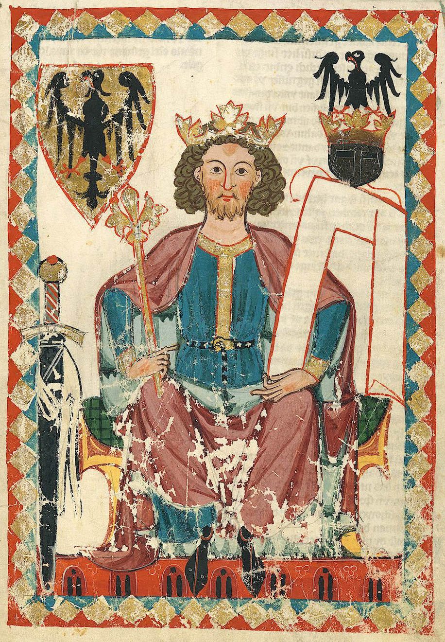 Codex Manesse, fol. 6r, Henry VI., Holy Roman Emperor, c. 1300